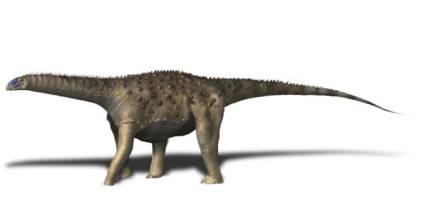 Saltasaurus loricatus, Late Cretaceous of Argentina. Digital.